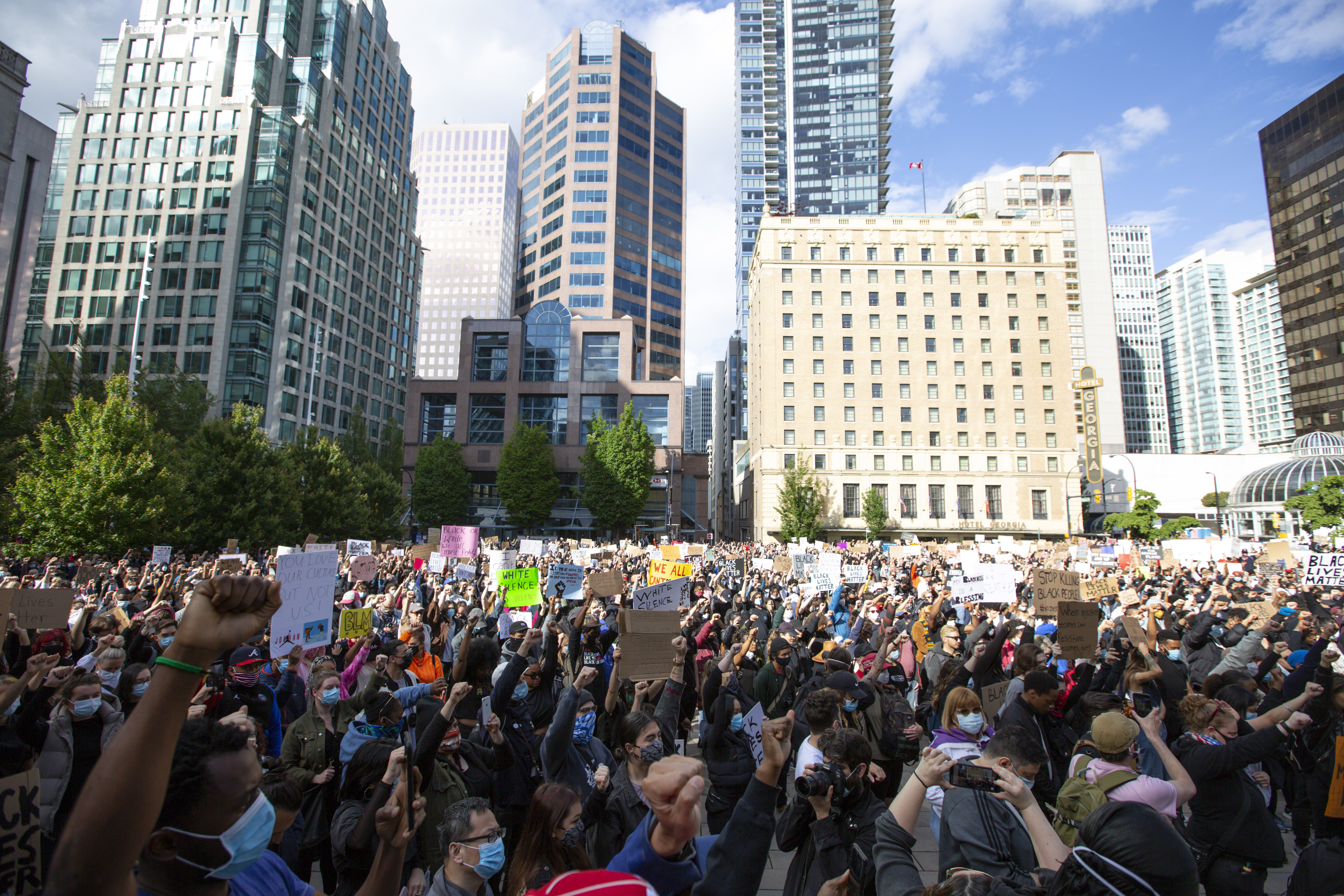 Black Lives Matter, Anti-racism rally at Vancouver Art Gallery